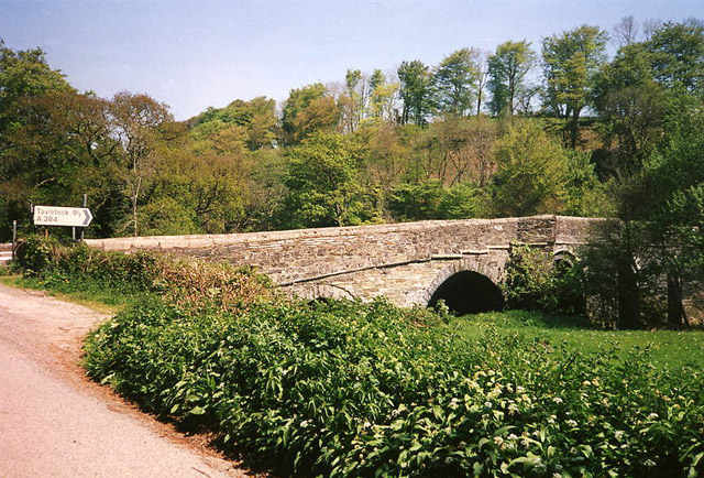 Lezant: Greystone Bridge. Seen from the Cornish bank. The bridge crosses the Tamar into the Devon parish of Dunterton. It is only wide enough for one lane of traffic and the approaches are controlled by traffic lights